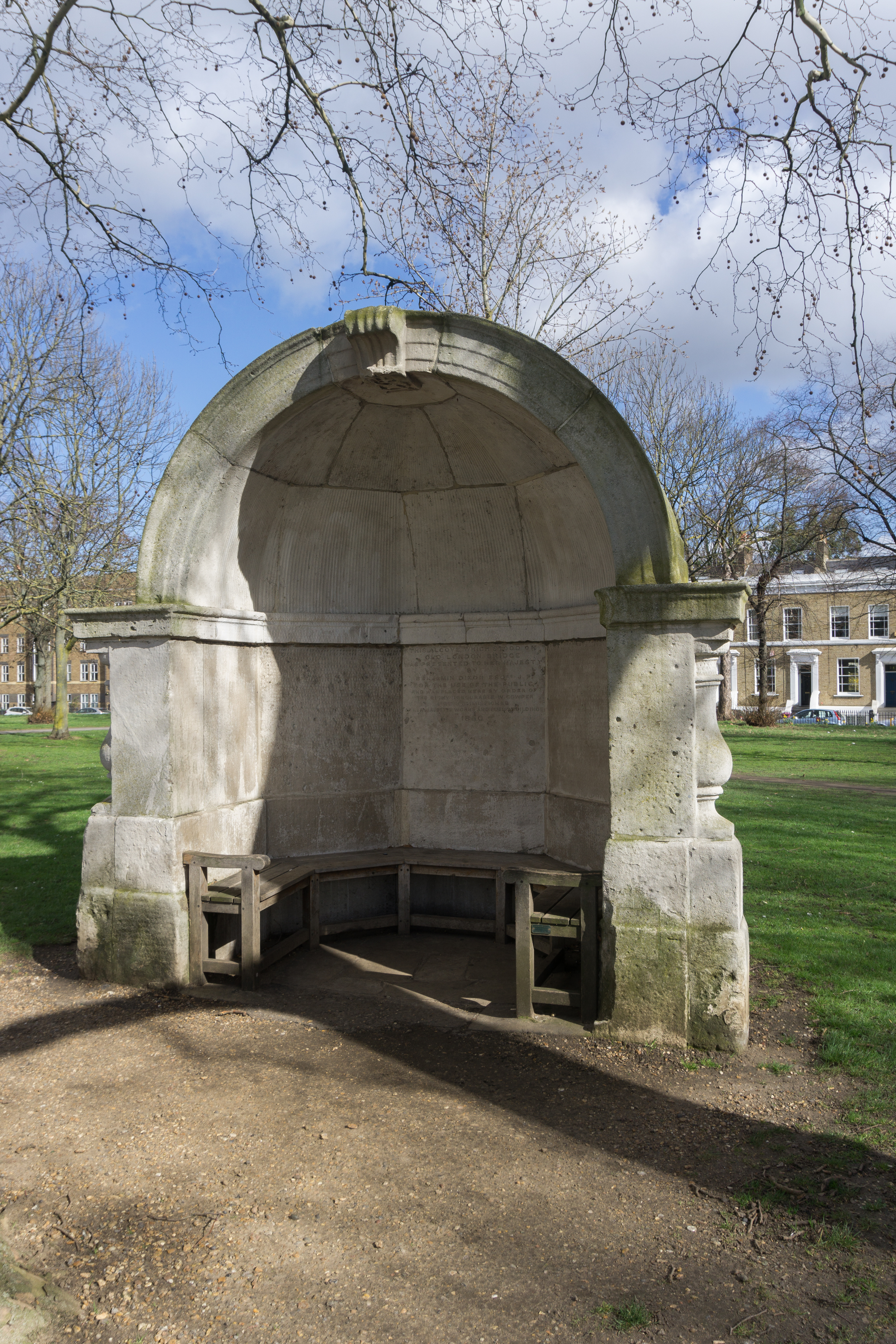 One of the two London Bridge stone alcoves kept at Victoria Park. After the bridge was demolished 1831, the alcoves were donated to Victoria Park by Mr Benjamin Dixon in 1860.